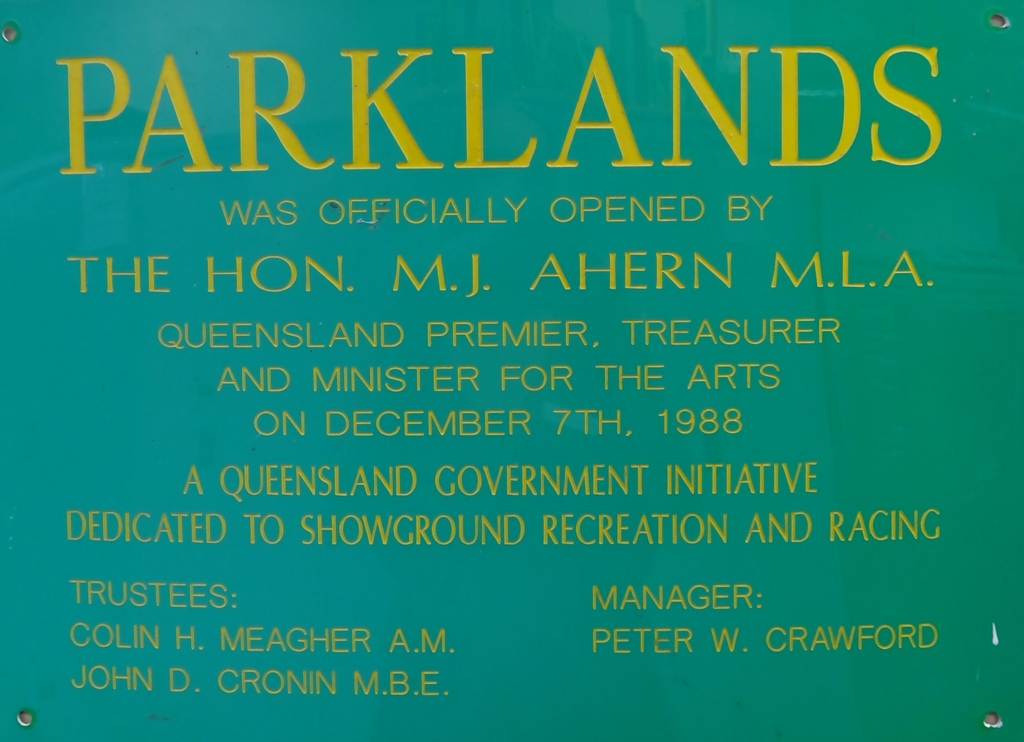 This sign was originally at the Gold Coast Parklands complex, Queensland, Australia